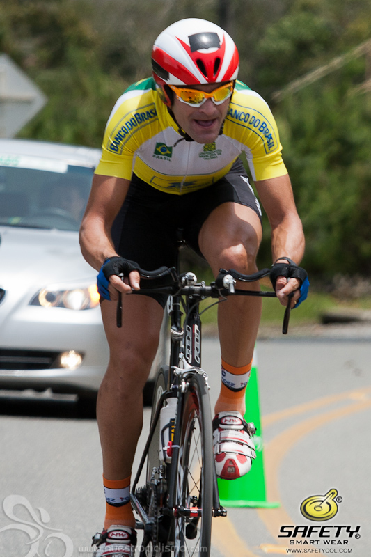 Gregory Panizo Brazilian rider during the trial of the Pan American Cycling Championships 2011